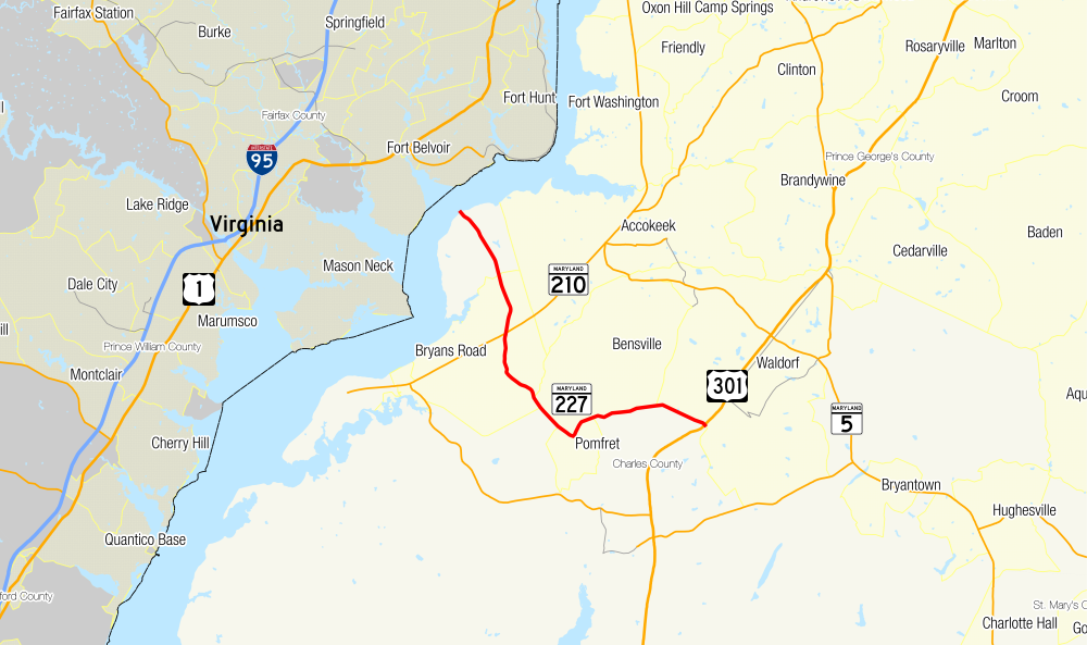 Map of Maryland Route 227